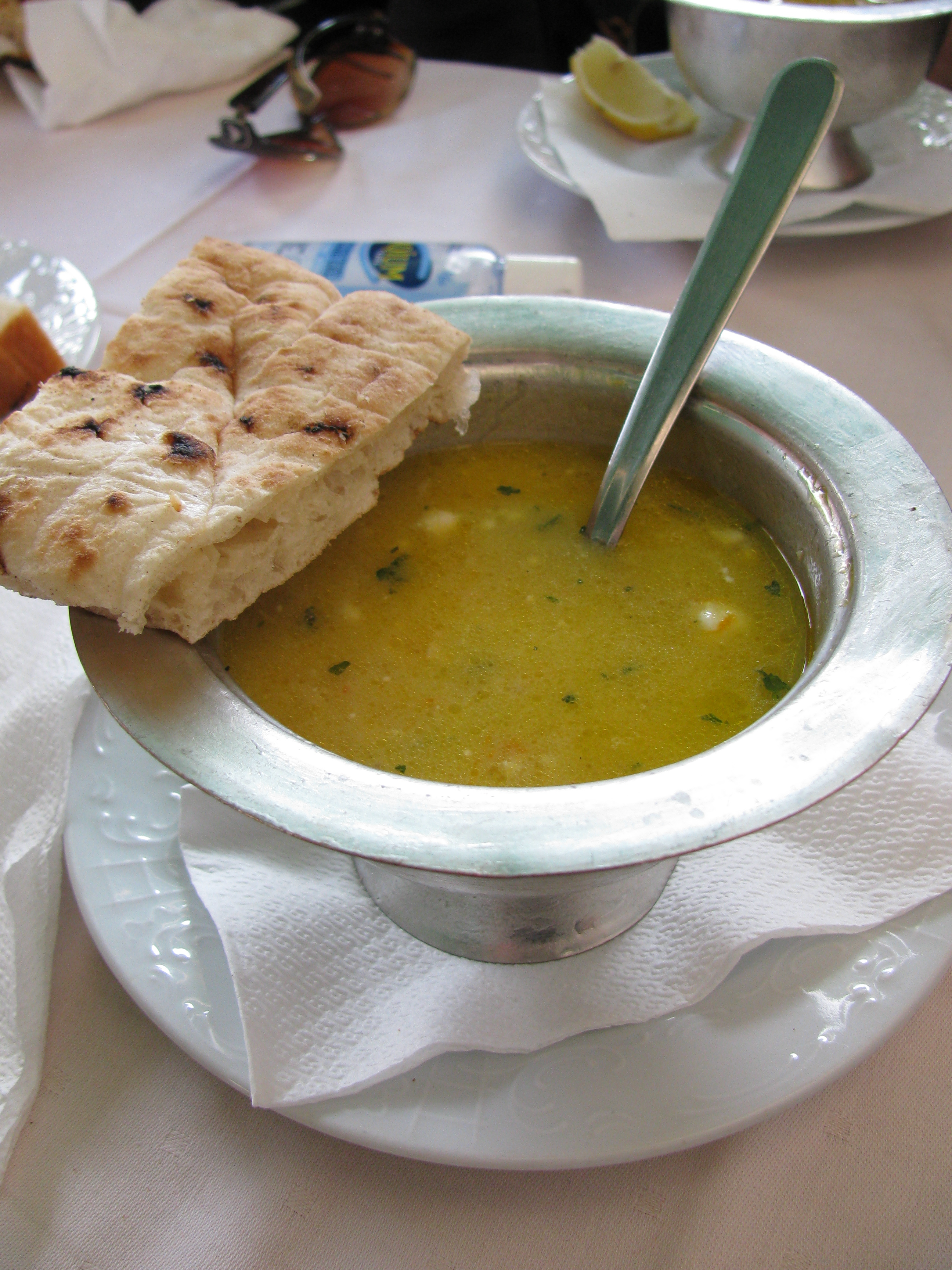 Begova Čorba served in Sarajevo, Bosnia in the old town of Baščaršija.